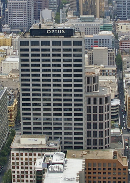 Optus tower. Taken from the Rialto Towers in Melbourne